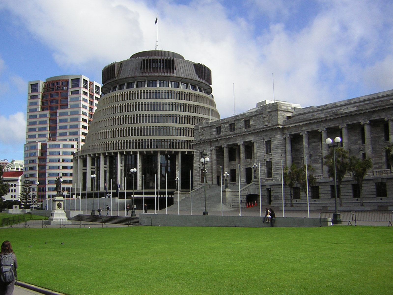 Bowen House, the Beehive and Parliament, New Zealand